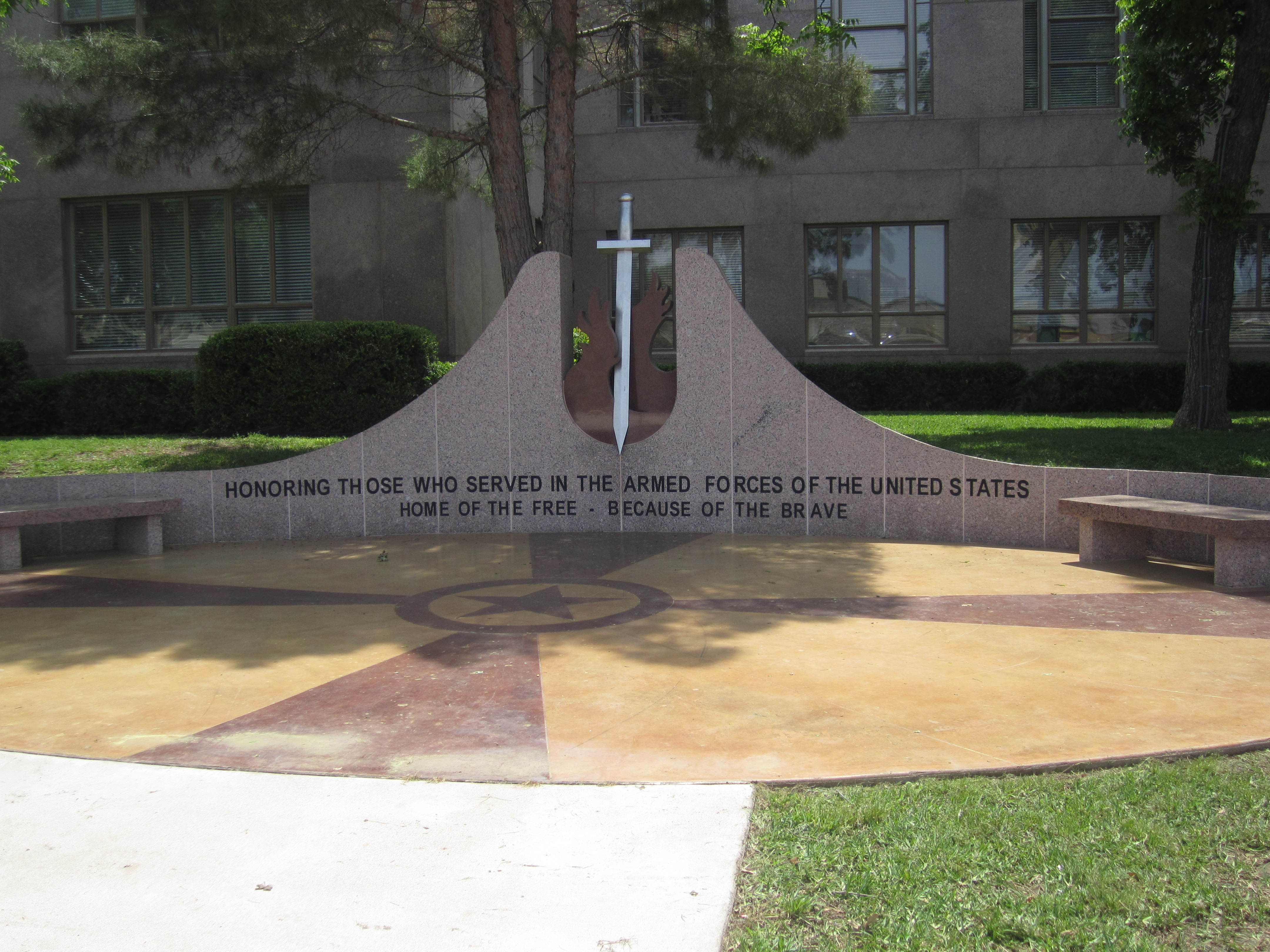 I took photo with Canon camera in Burnet, TX.